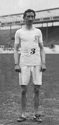 Members of the British athletic team at the 1908 London Olympics, Arthur Robertson.